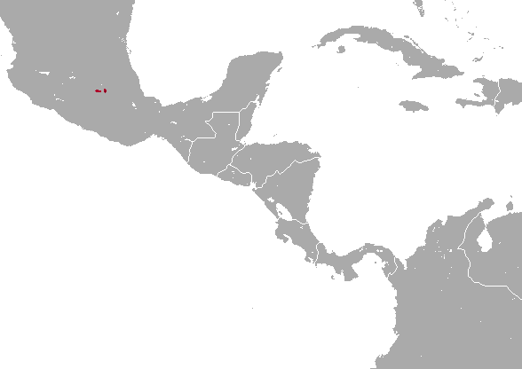 Volcano Rabbit (Romerolagus diazi) range, with colonial borders